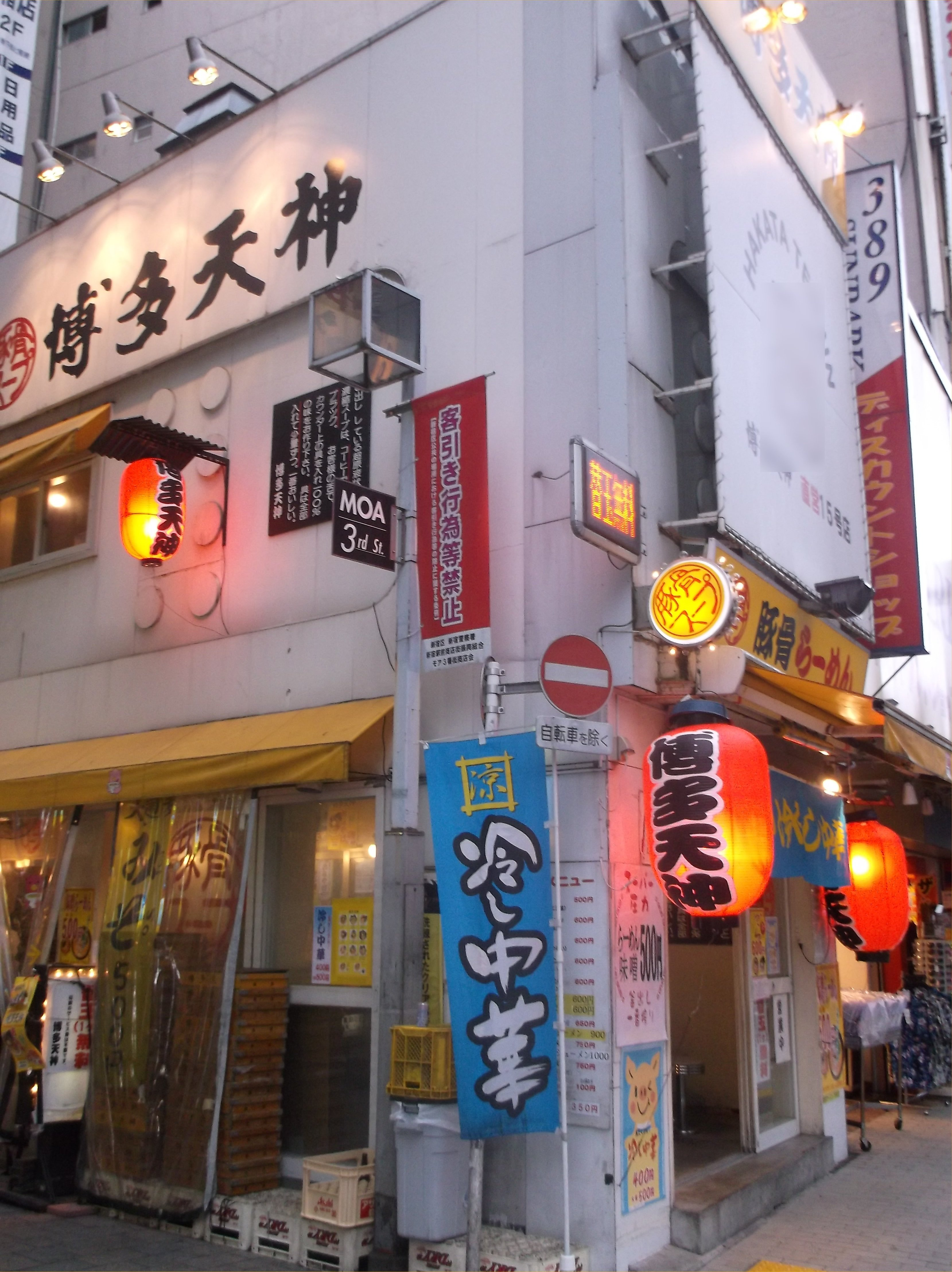 A photo of tonkotsu ramen shop"Hakatatenjin" shinjukuhigashiguchiekimae branch shop.Shinjuku,Shinjuku-ku,Tokyo,Japan.